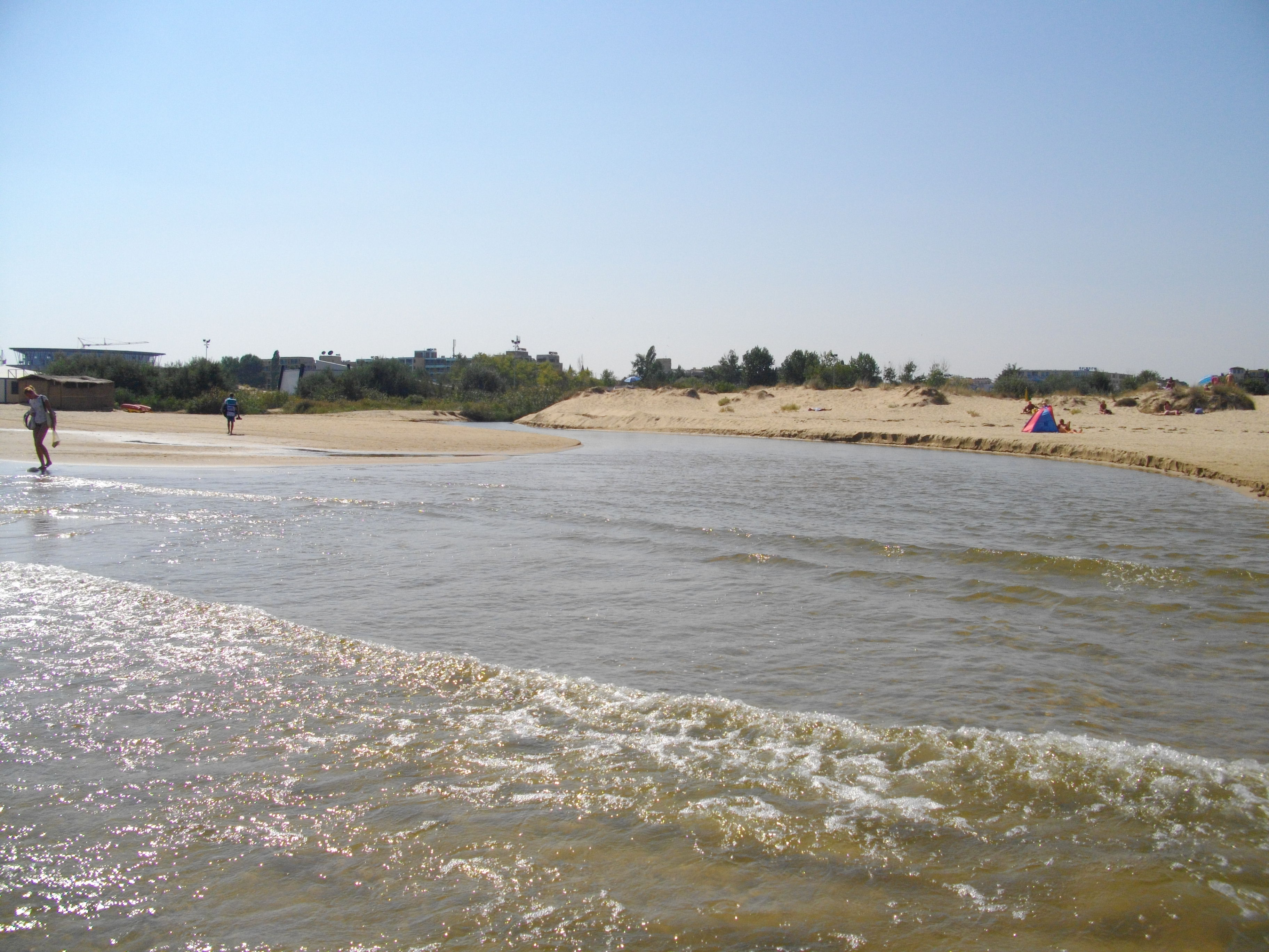 Hadzijska River